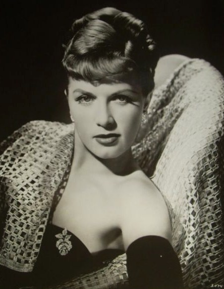 Publicity photo of Denise Darcel for Battleground (1949).